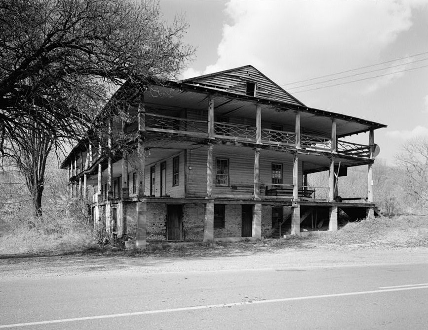 Sweet Chalybeate Springs, Main Building, State Route 311, Sweet Chalybeate (Alleghany County, Virginia) cropped This file comes from the Historic American Buildings Survey (HABS), Historic American Engineering Record (HAER) or Historic American Landscapes Survey (HALS). These are programs of the National Park Service established for the purpose of documenting historic places. Records consist of measured drawings, archival photographs, and written reports. When reusing please credit: Library of Congress, Prints & Photographs Division, VA,3-SWECH,1A-2 This tag does not indicate the copyright status of the attached work. A normal copyright tag is still required. See Commons:Licensing. This work is in the public domain in the United States because it is a work prepared by an officer or employee of the United States Government as part of that person’s official duties under the terms of Title 17, Chapter 1, Section 105 of the US Code. Note: This only applies to original works of the Federal Government and not to the work of any individual U.S. state, territory, commonwealth, county, municipality, or any other subdivision. This template also does not apply to postage stamp designs published by the United States Postal Service since 1978. (See § 313.6(C)(1) of Compendium of U.S. Copyright Office Practices). It also does not apply to certain US coins; see The US Mint Terms of Use. This file has been identified as being free of known restrictions under copyright law, including all related and neighboring rights.